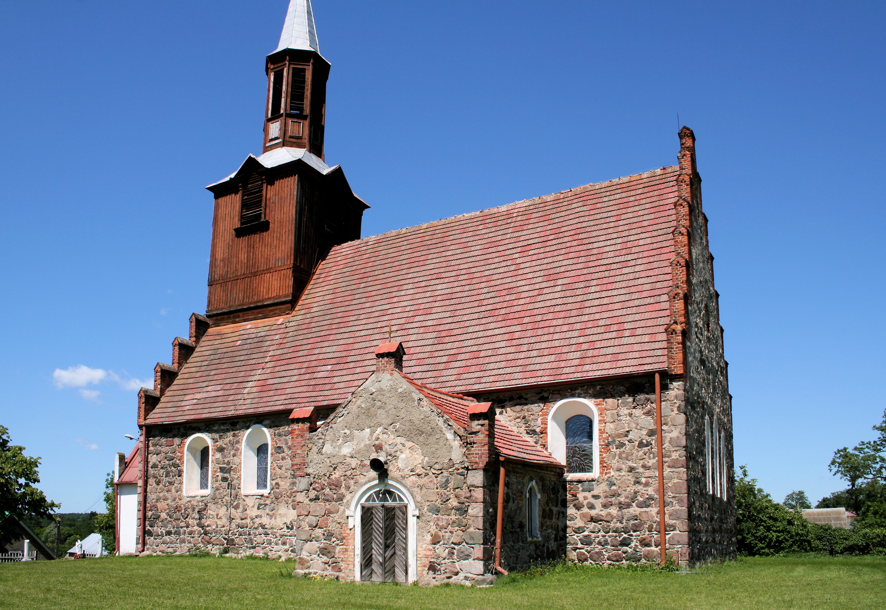 Church of our Lady Queen of the Polish Crown in Kłosów, West Pomeranian Voivodeship